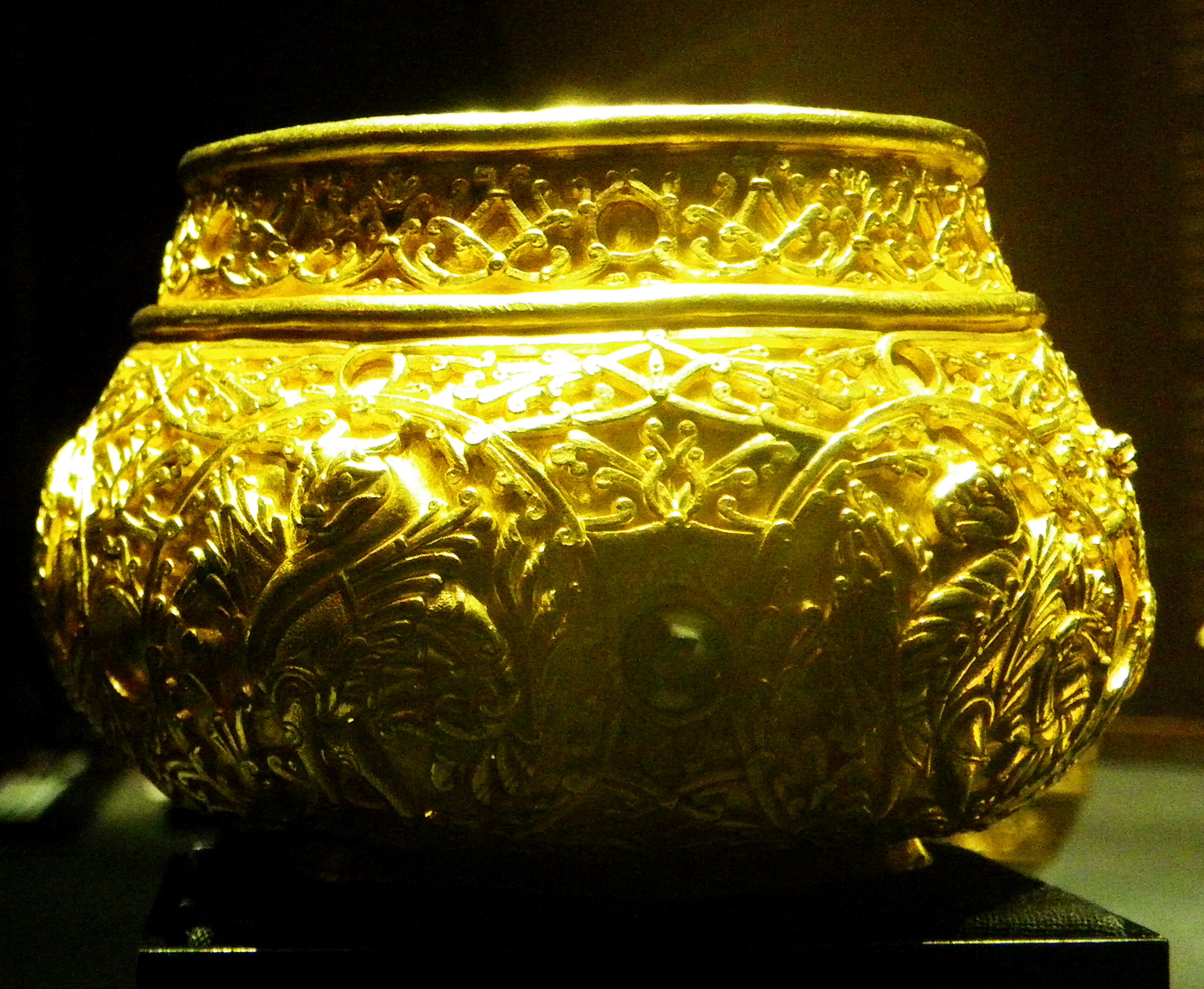 Treasure of Nagyszentmiklós